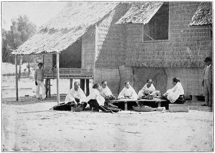 Group of women making cigars (Philippines, 1900)